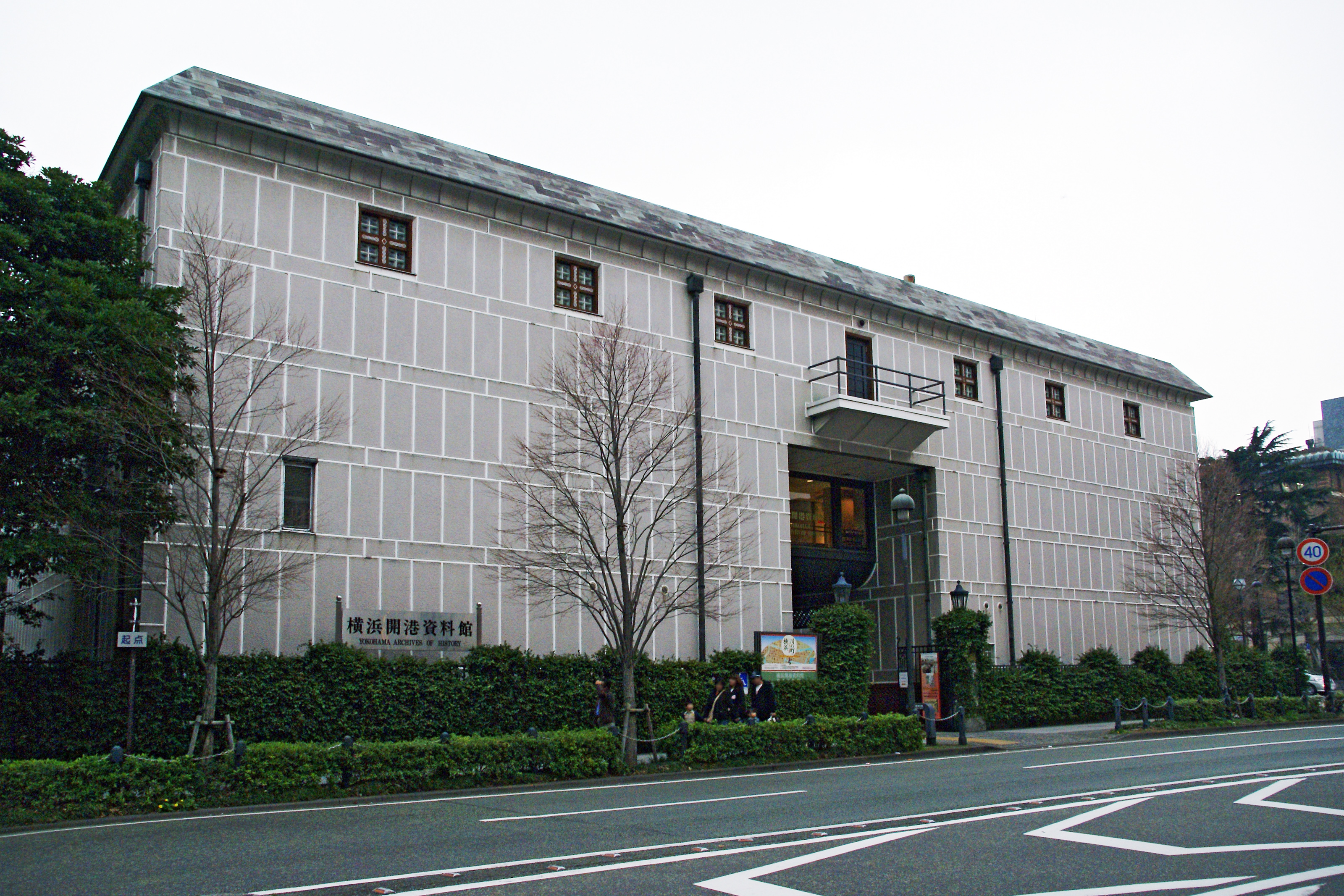 Yokohama Archives of History in Yokohama, Kanagawa prefecture, Japan